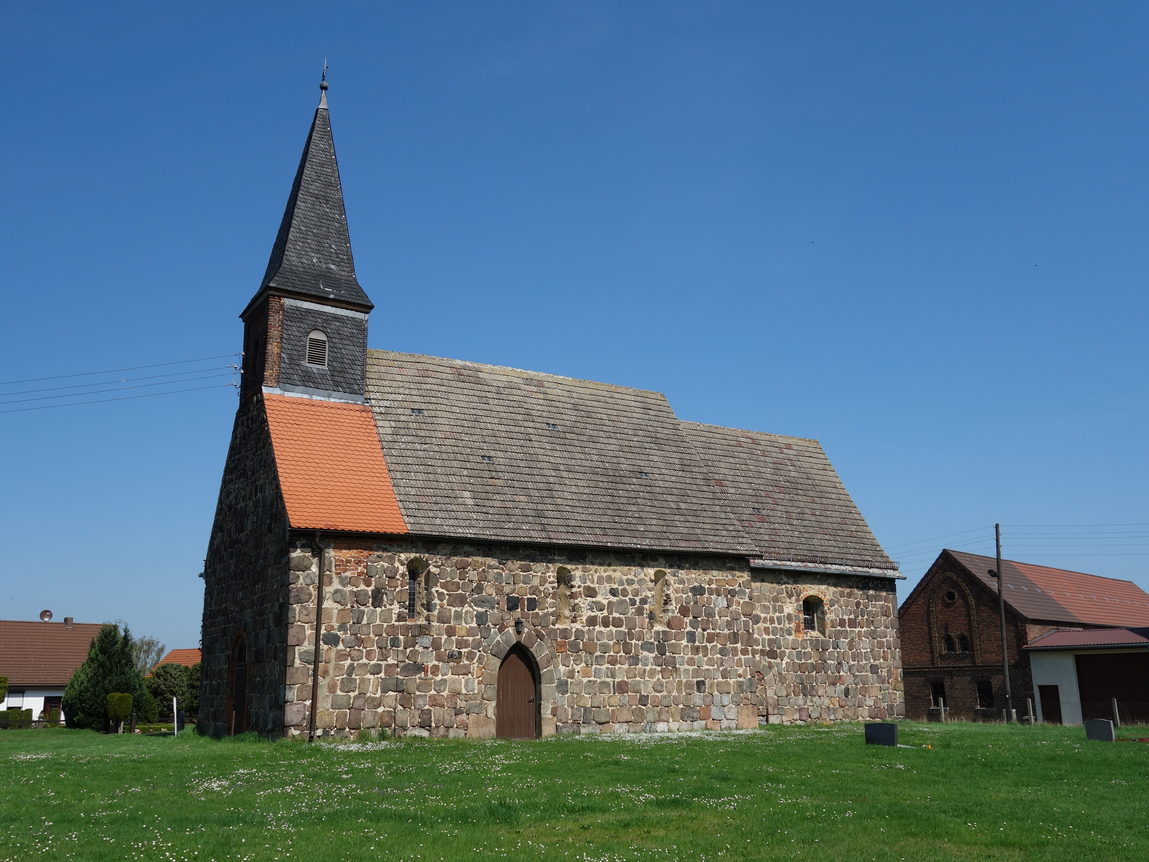 South-south-western view of the church in Zeuden , Treuenbrietzen municipality, Potsdam-Mittelmark district, Brandenburg state, Germany